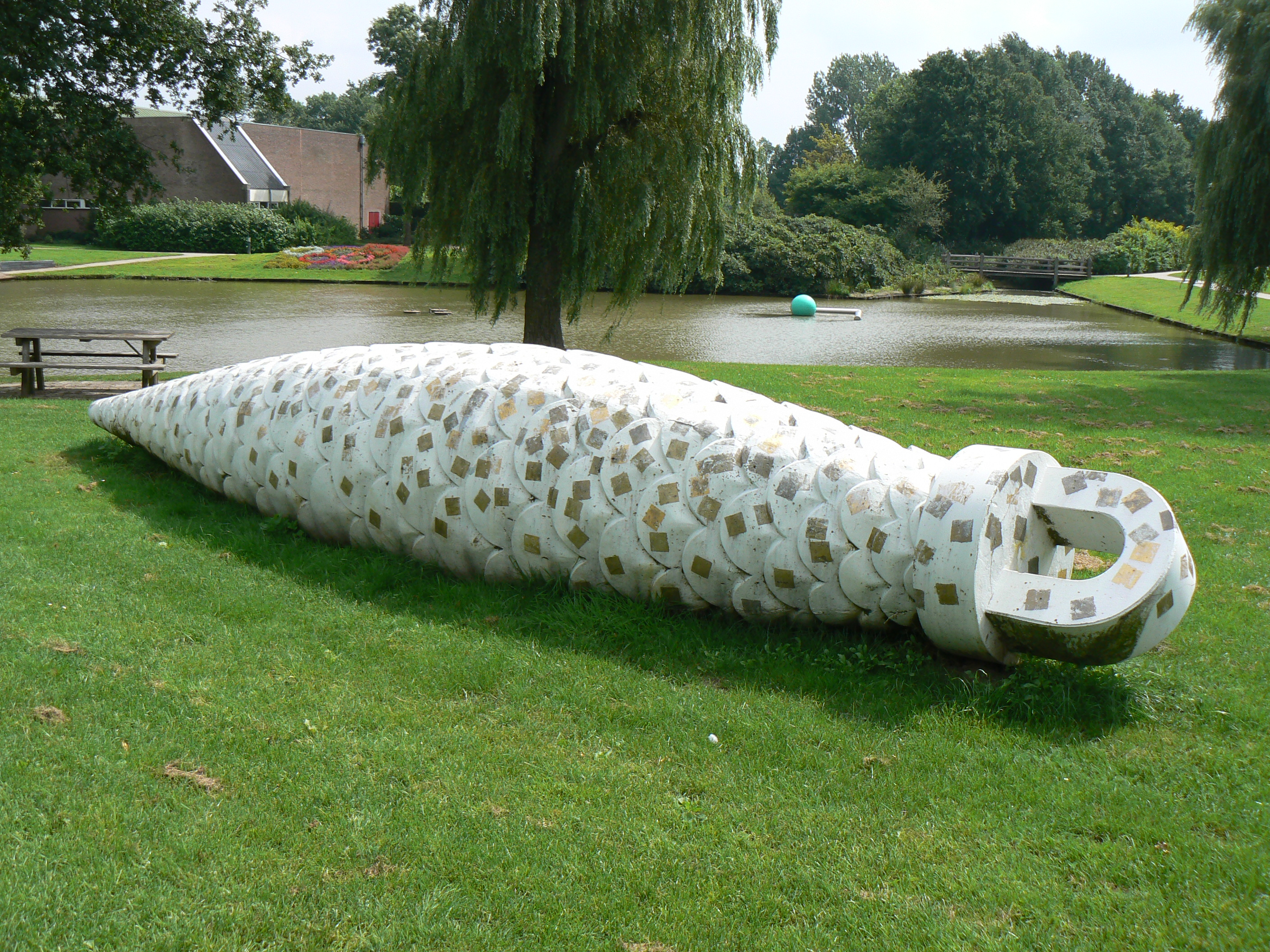 Sculpture: Koekoeksklokgewicht (1993) by Hans van den Ban in Gramsbergen/The Netherlands